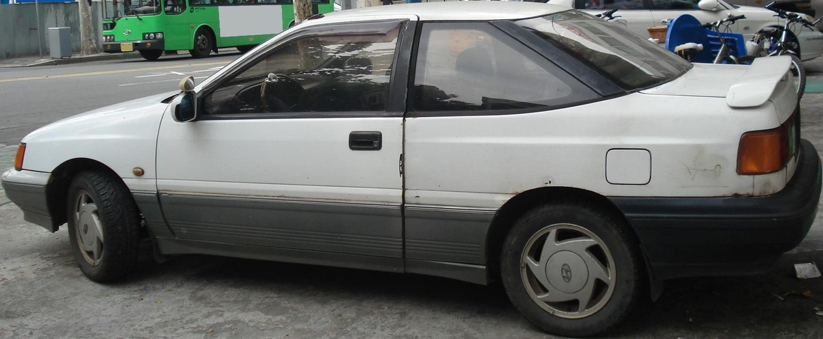 Hyundai Scoupe